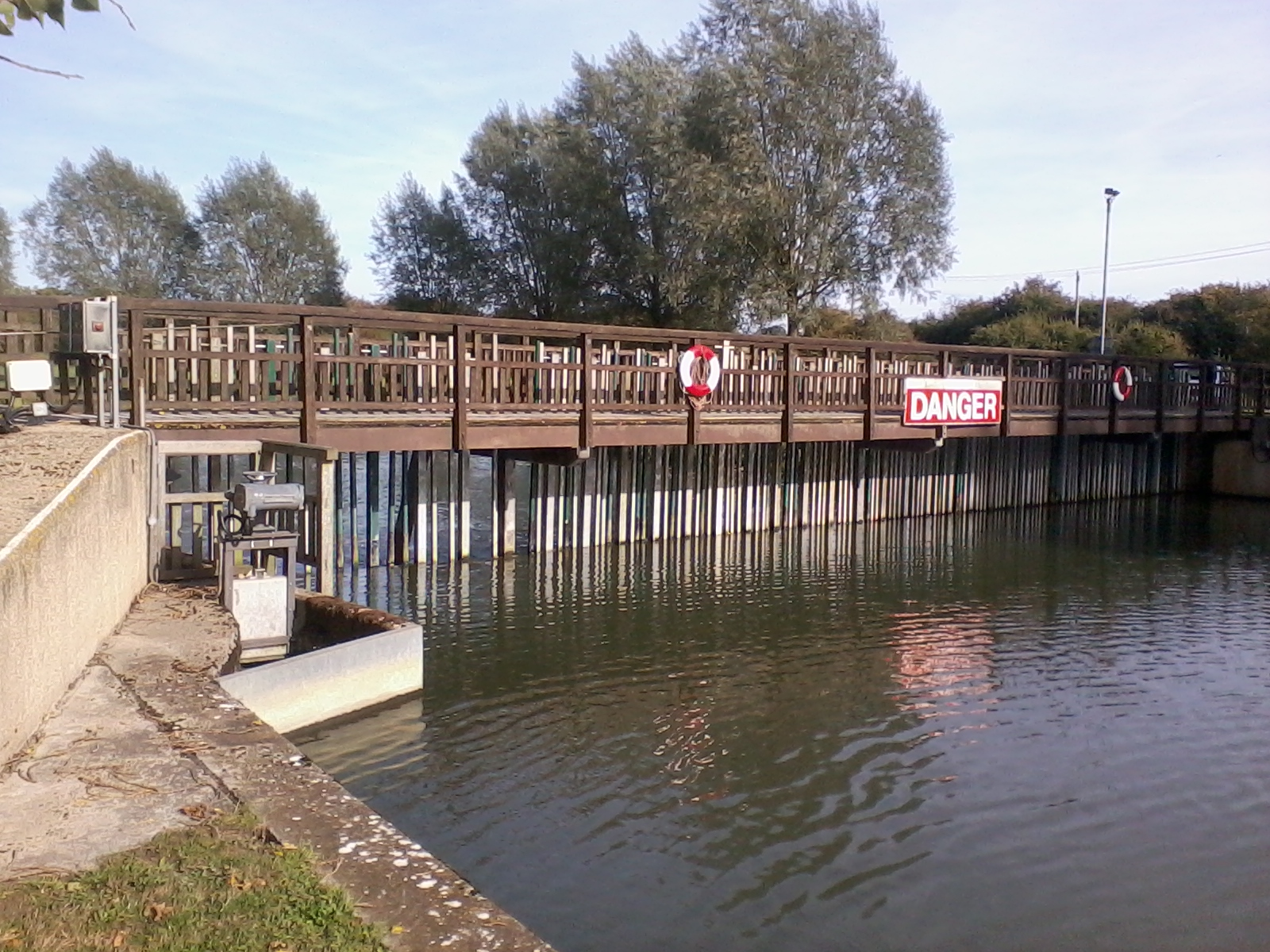 Paddle and rymer weir at Northmoor lock on the River Thames. This is due to be replaced in 2012 by the Environment Agency Photo by uploader